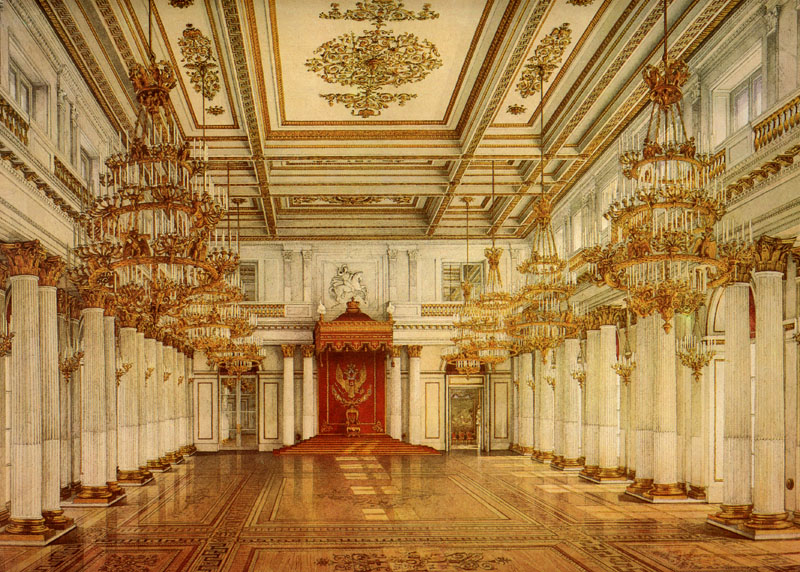 Interiors of the Winter Palace. The St George's Hall. Watercolour by Constantine Ukhtomsky, 1862.